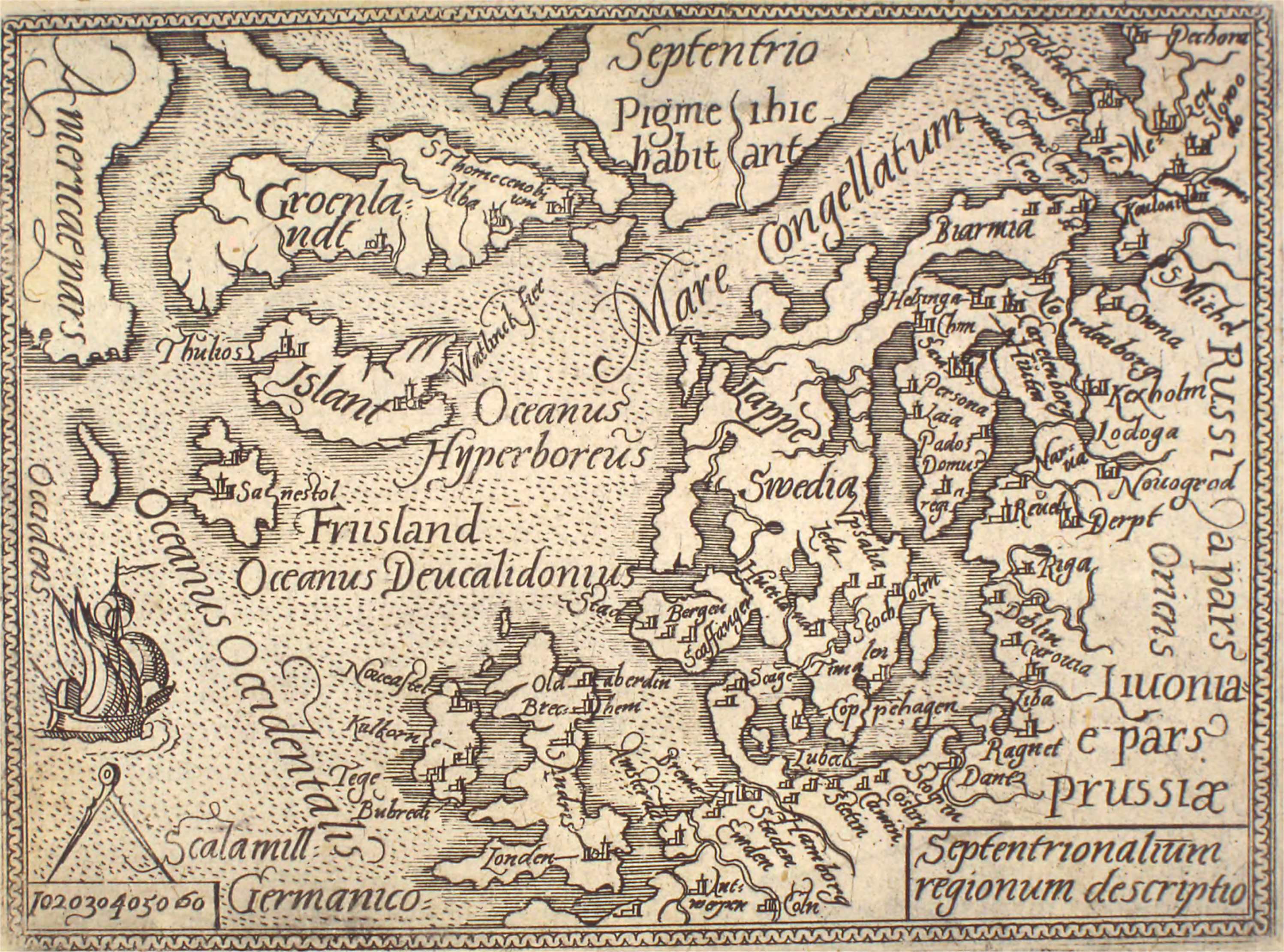 Map published in Netherlands